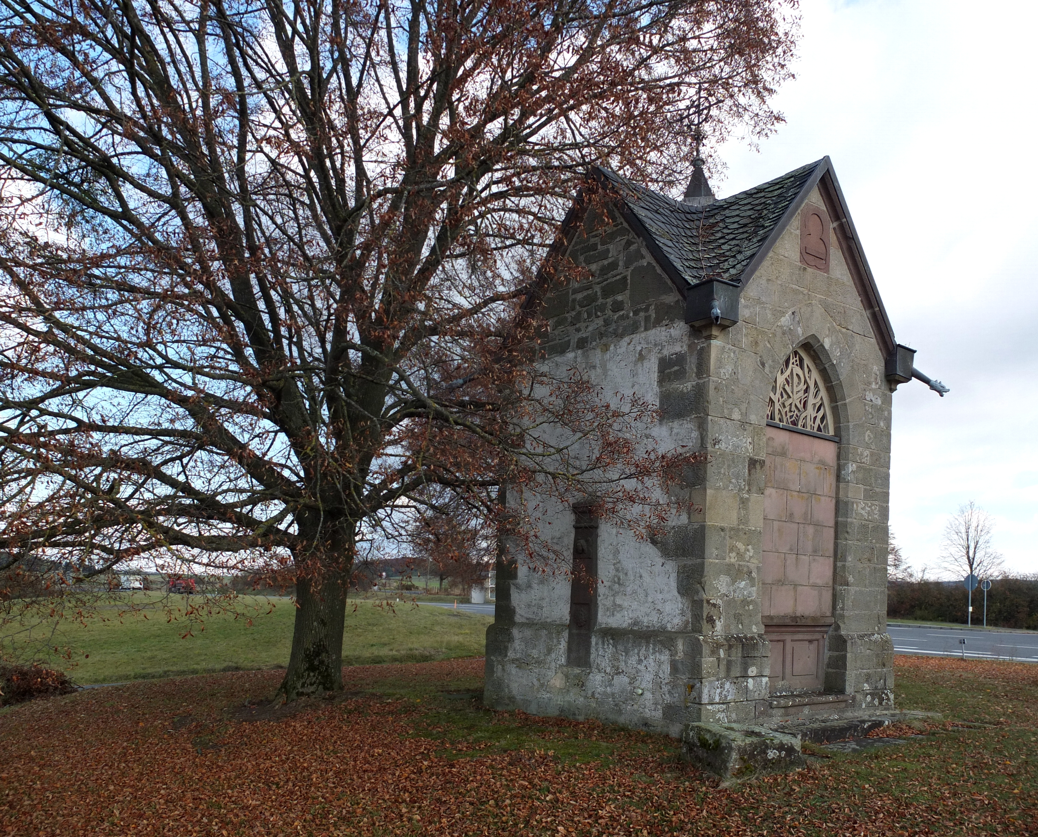 "Stedemer Kapellchen", near Messerich, Germany This is a photograph of an architectural monument.It is on the list of cultural monuments of Messerich